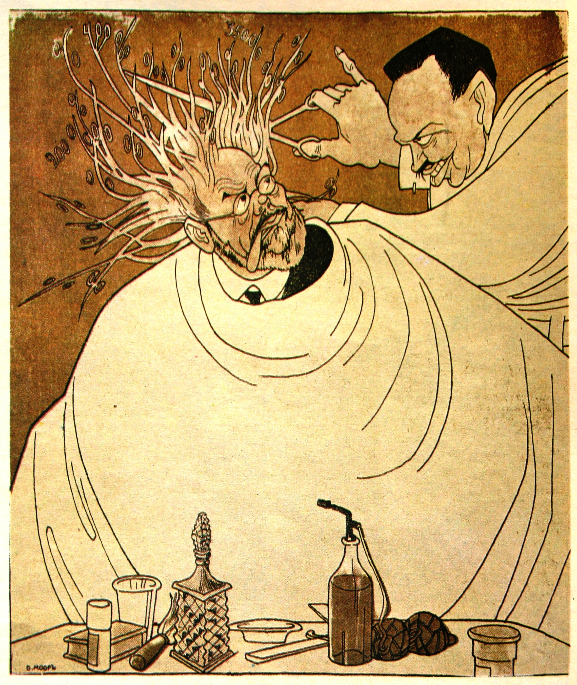 Dmitry Moor. Picture in "Budilnik".